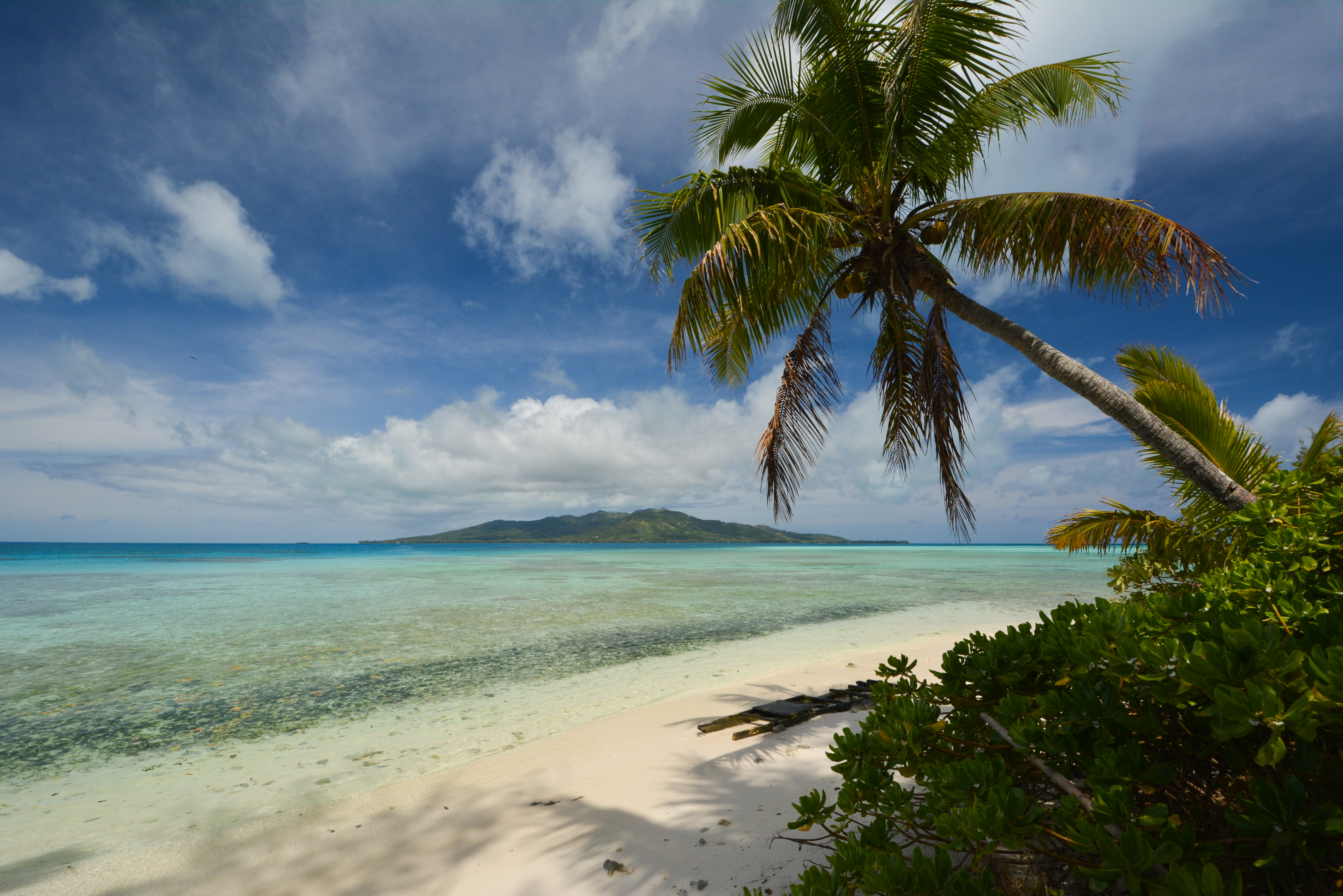 Photograph of the island of Tubuai (French Polynesia) taken from the Mitiha motu.